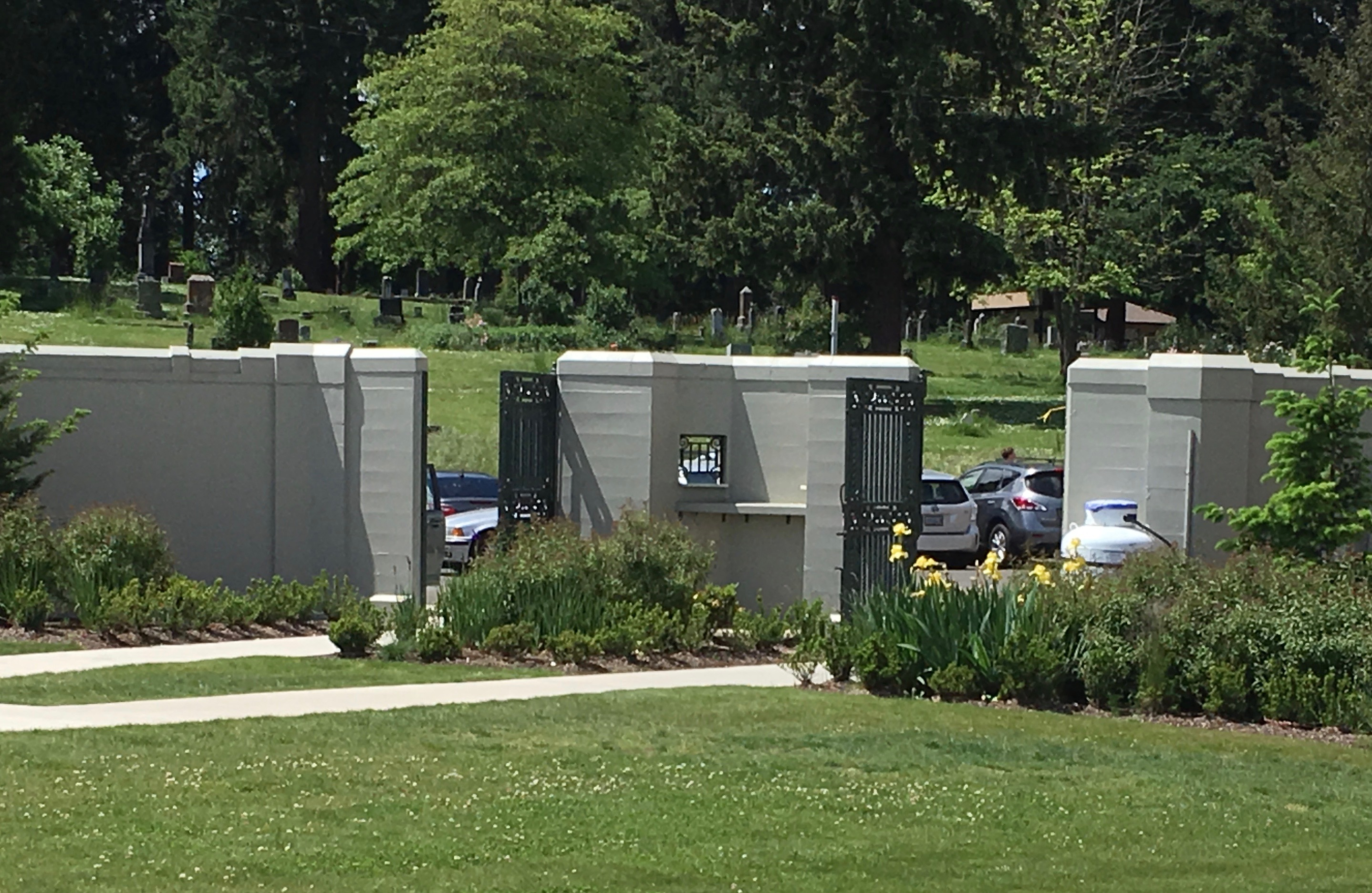 Gates at entrance to Jane Sanders Stadium, only remaining structure from Howe Field, on University Avenue near 18th Street in Eugene, Oregon